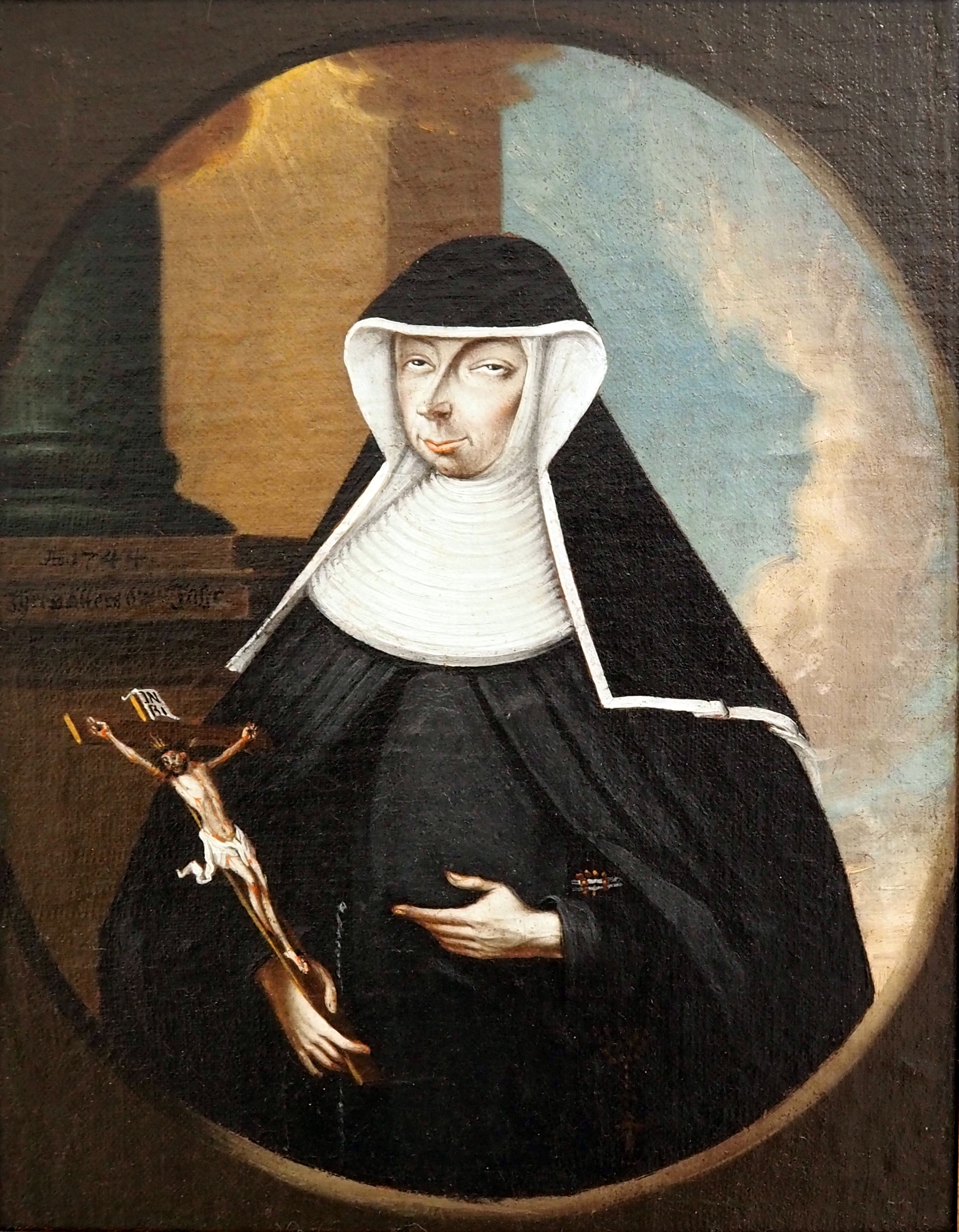 Crescentia Höss from Kaufbeuren as matron of the Franciscan monastery in Kaufbeuren. The black veil was to be worn only by the matron. Contemporary painting, second half of 18th century. This is a faithful photographic reproduction of a two-dimensional, public domain work of art. The work of art itself is in the public domain for the following reason: This work is in the public domain in its country of origin and other countries and areas where the copyright term is the author's life plus 100 years or less. You must also include a United States public domain tag to indicate why this work is in the public domain in the United States. This file has been identified as being free of known restrictions under copyright law, including all related and neighboring rights. The official position taken by the Wikimedia Foundation is that "faithful reproductions of two-dimensional public domain works of art are public domain". This photographic reproduction is therefore also considered to be in the public domain in the United States. In other jurisdictions, re-use of this content may be restricted; see Reuse of PD-Art photographs for details.